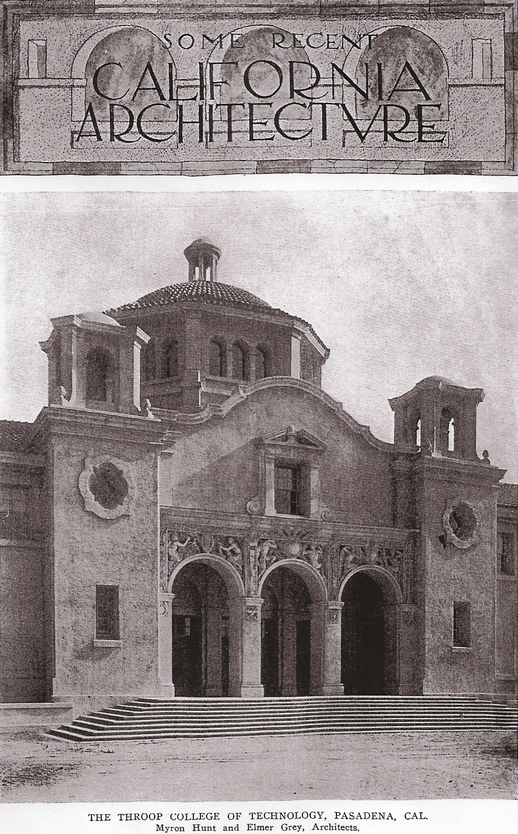 1913 photograph of the Throop College of Technology (Caltech) — in Pasadena, California. Located on the present day California Institute of Technology campus.